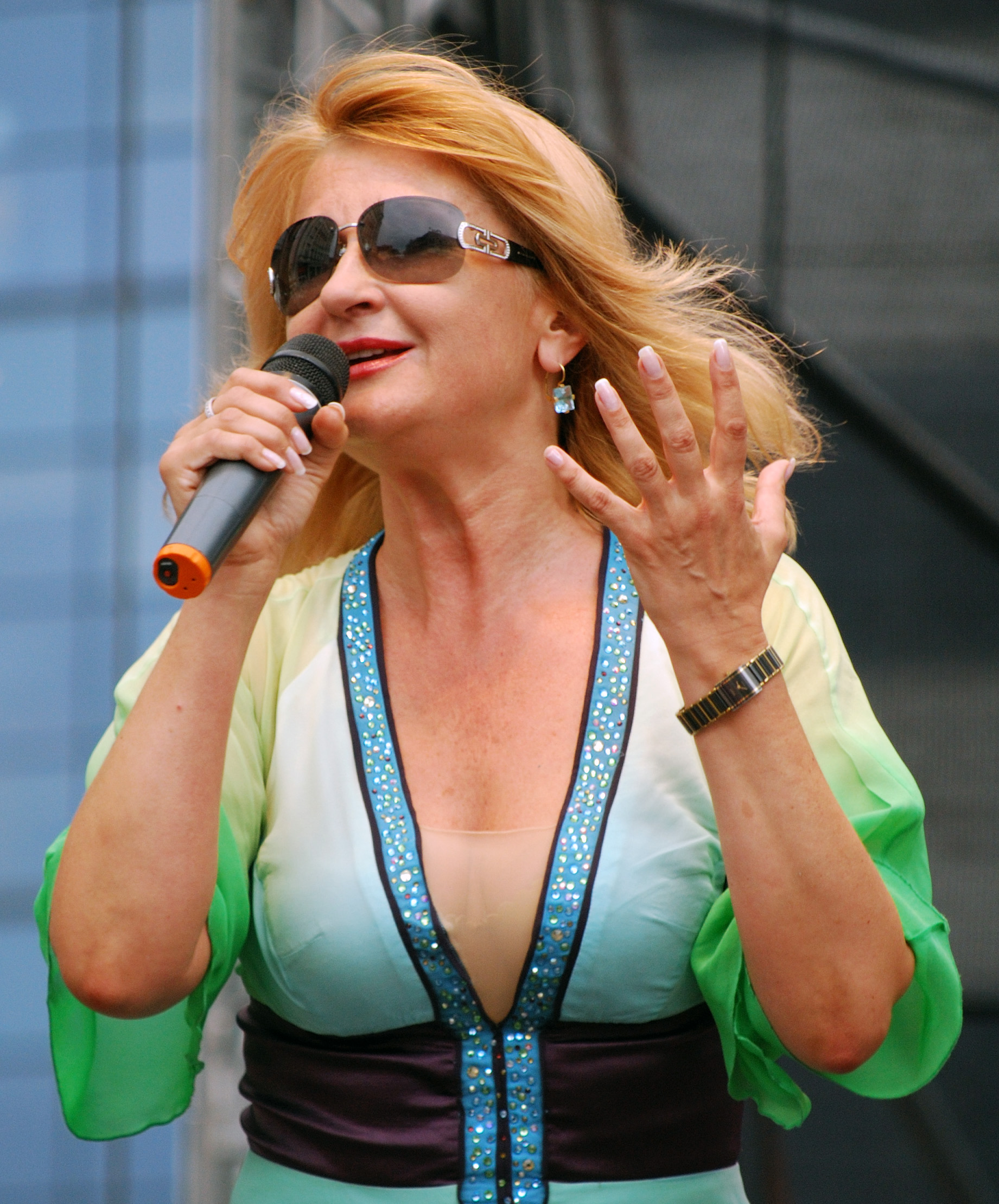 Majka Jeżowska - Polish pop singer during a show given in 7 August 2008 in Łódź, Poland.